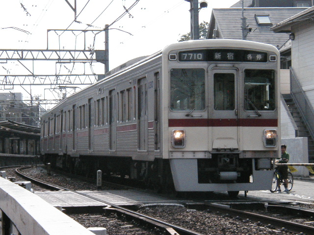 I don't understund English. I can use Japanese only. Sorry. Date taken（撮影日） 2002/5/19 ※カメラ側の撮影データと異なっていますが之はカメラの設定が不十分だった為で、強制的に正しい日付に書き換えて有ります Taken human（撮影者） Ichikawa Taichi （user:市川太一） Place of photo（撮影地） 明大前～下高井戸 Description（内容） 7710F旧色 Not Cropped（非トリミング） Released to Public Domain so all free to use.